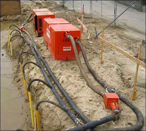 Groundwater drainage